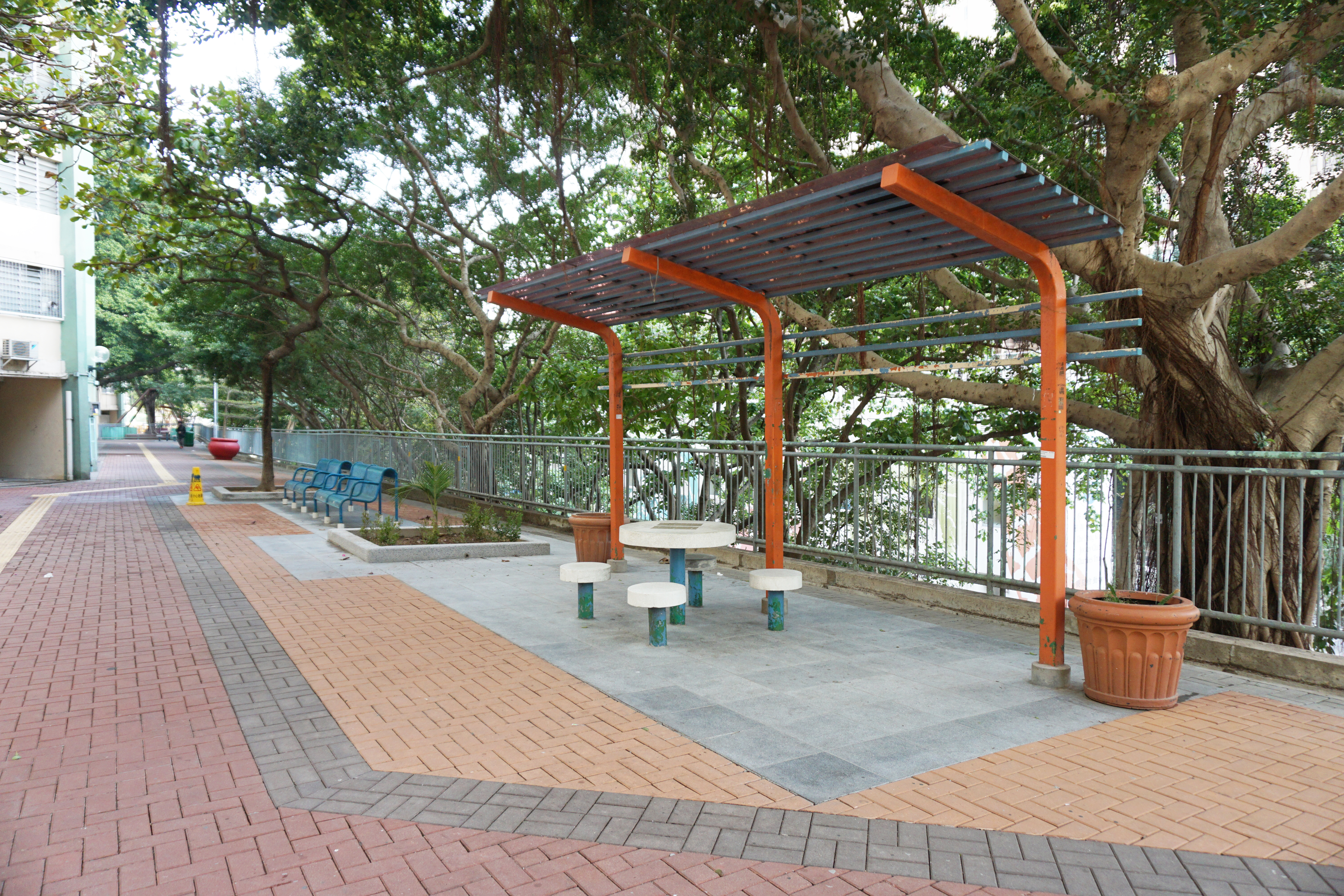 Oi Man Estate in Ho Man Tin, Hong Kong.